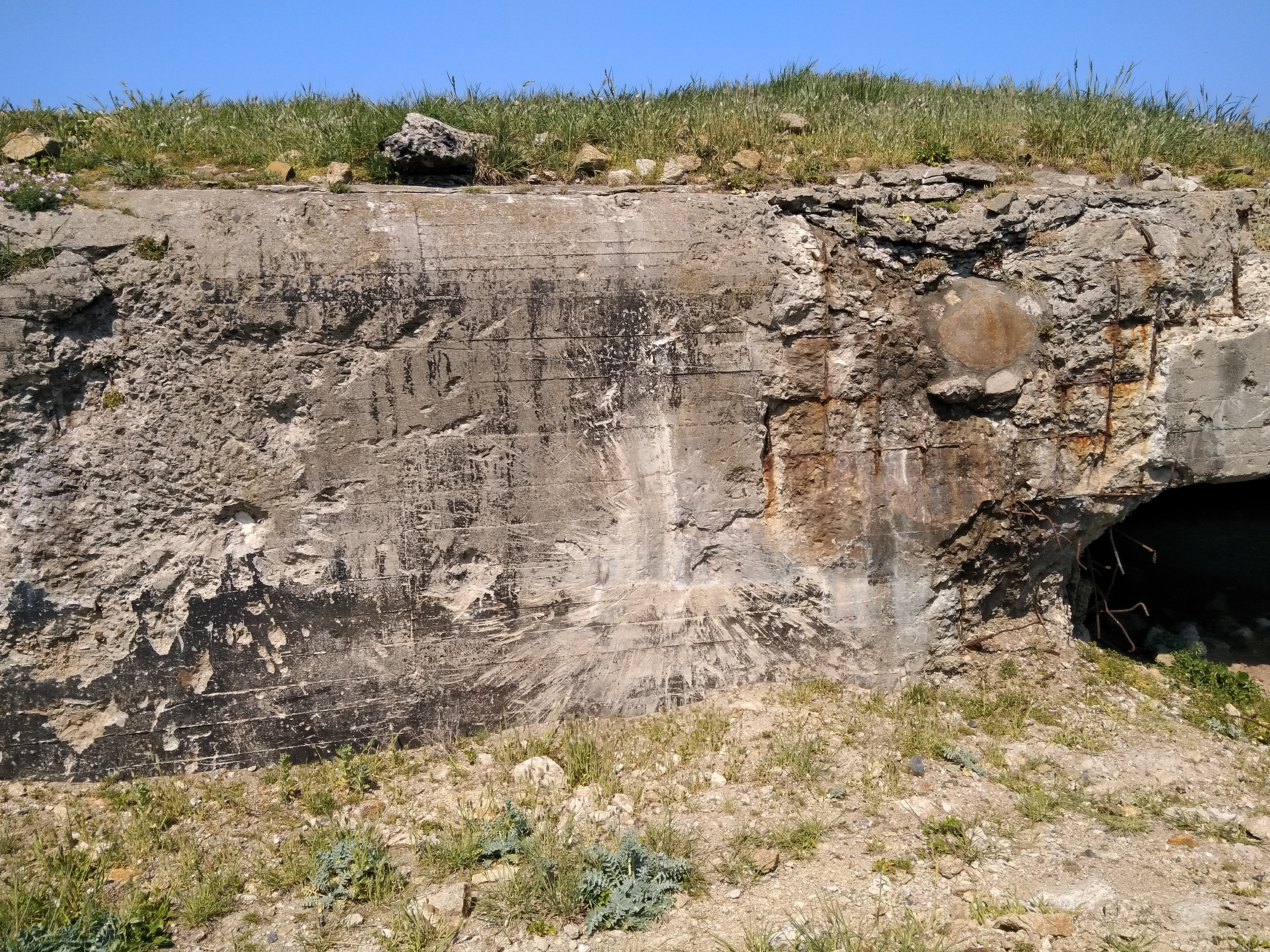 Visible trace of explosions on a bunker on the island of Cézembre, off Saint Malo (France)